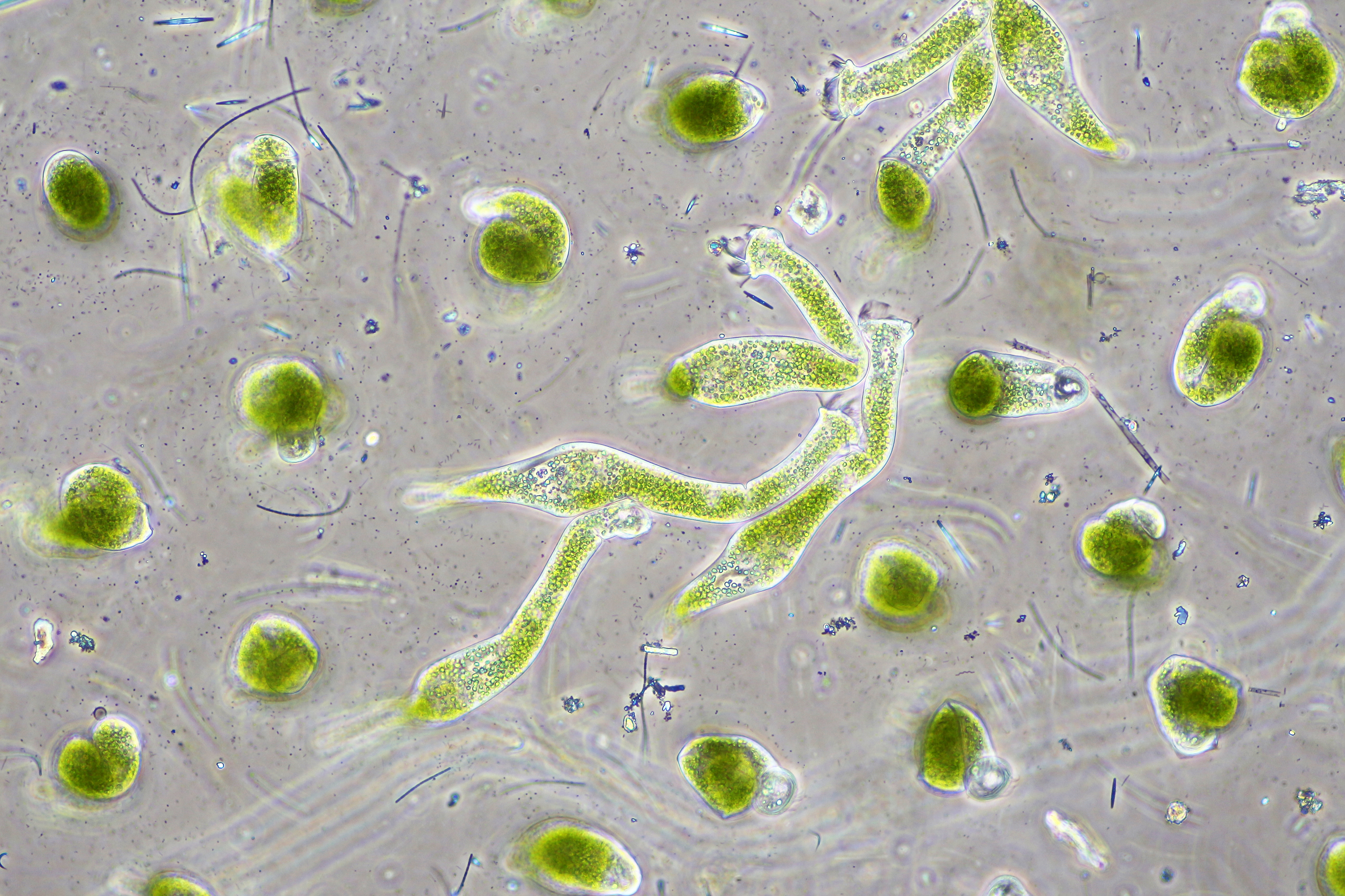 Colonial peritrich ciliate Ophrydium versatile Ophrydium versatile cells form symbiocenosis with alga Chlorella vulgaris. The infusoria are located on the surface of zoochlorella produced slime. Abundant zoochlorellae give the cells a vivid green color. Light microscopy, variable phase contrast.